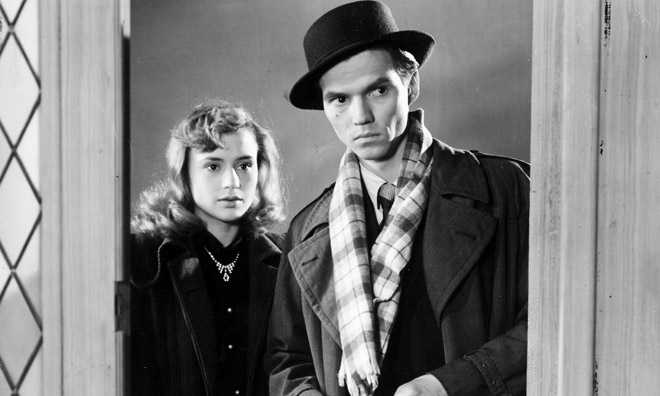 Harriet Andersson and Per Oscarsson in the film Trots (1952).